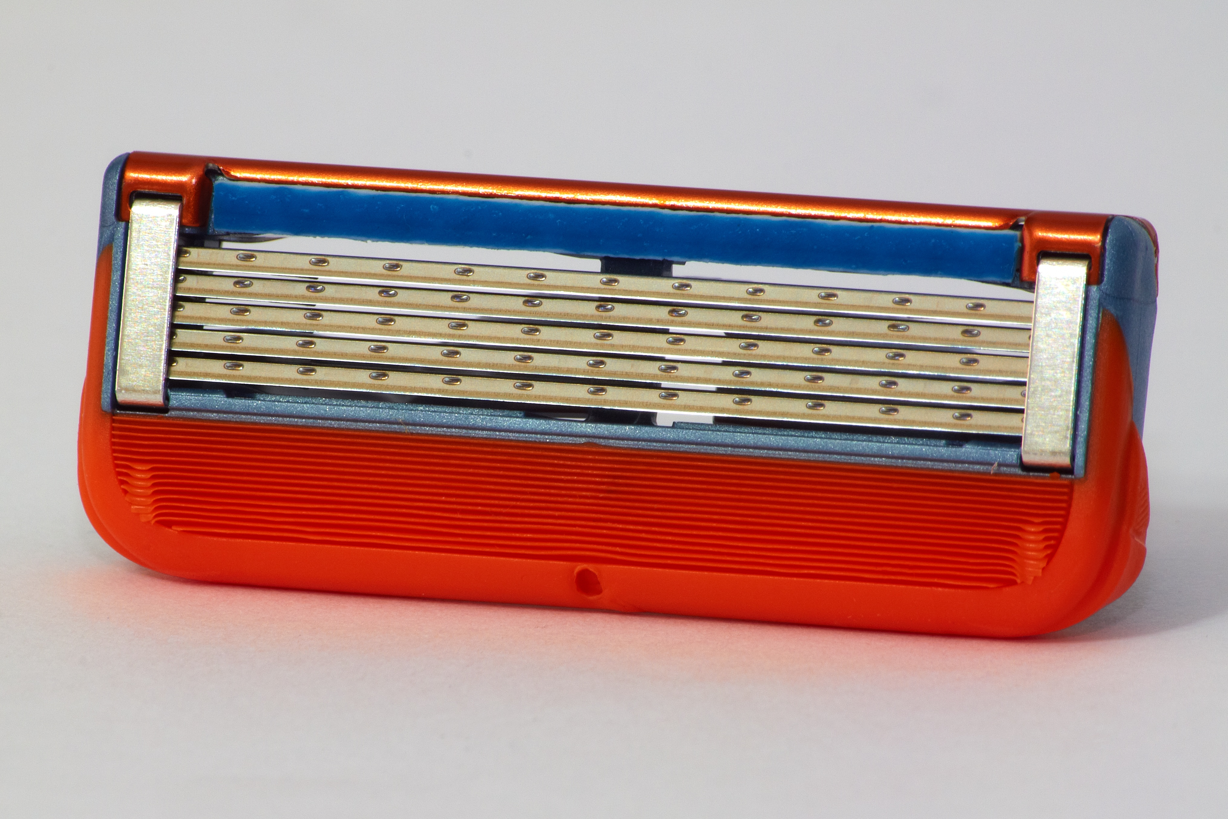 Gillette Fusion Power razor cartridge.